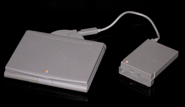 PowerBook Duo with Micro Dock and floppy accessory.